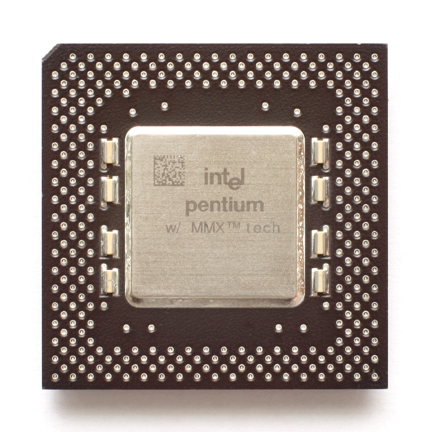 CPU Intel Embedded Pentium MMX, PGA.